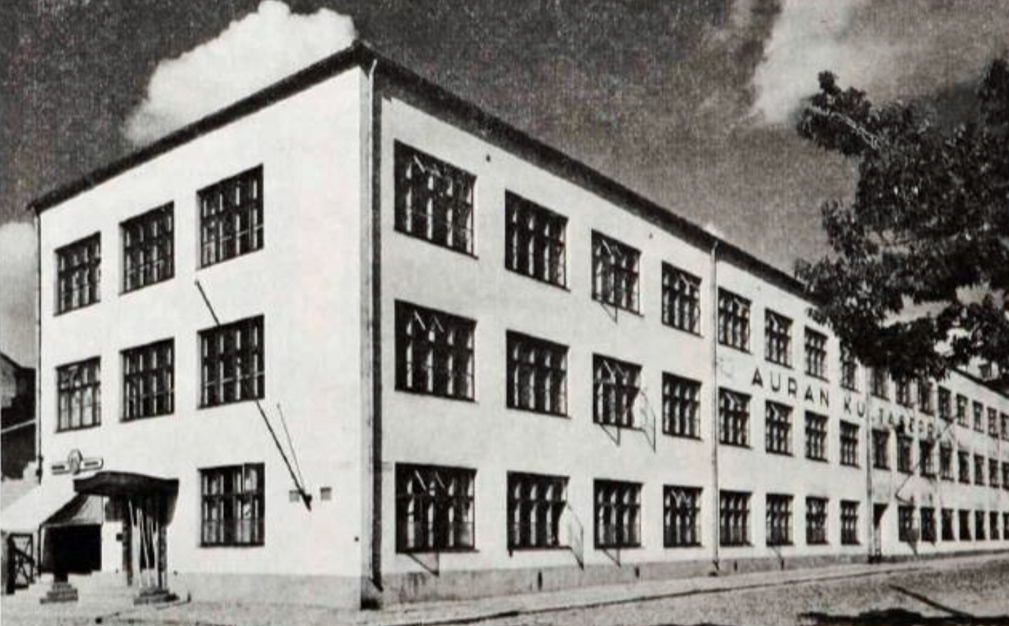 Gold and silver goods factory, built in late 1920s, located at Kurjenkaivonkenttä 3, Turku, Finland. Now replaced by apartment buildings.